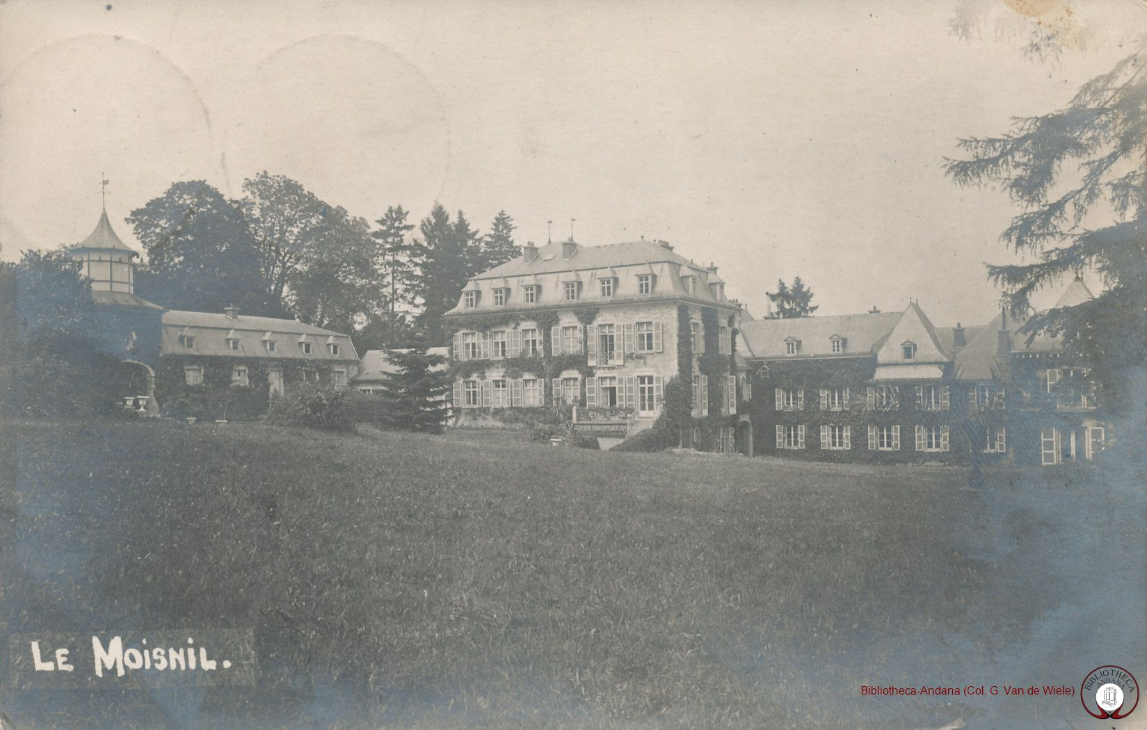 Château du Moisnil Postcard from 1924